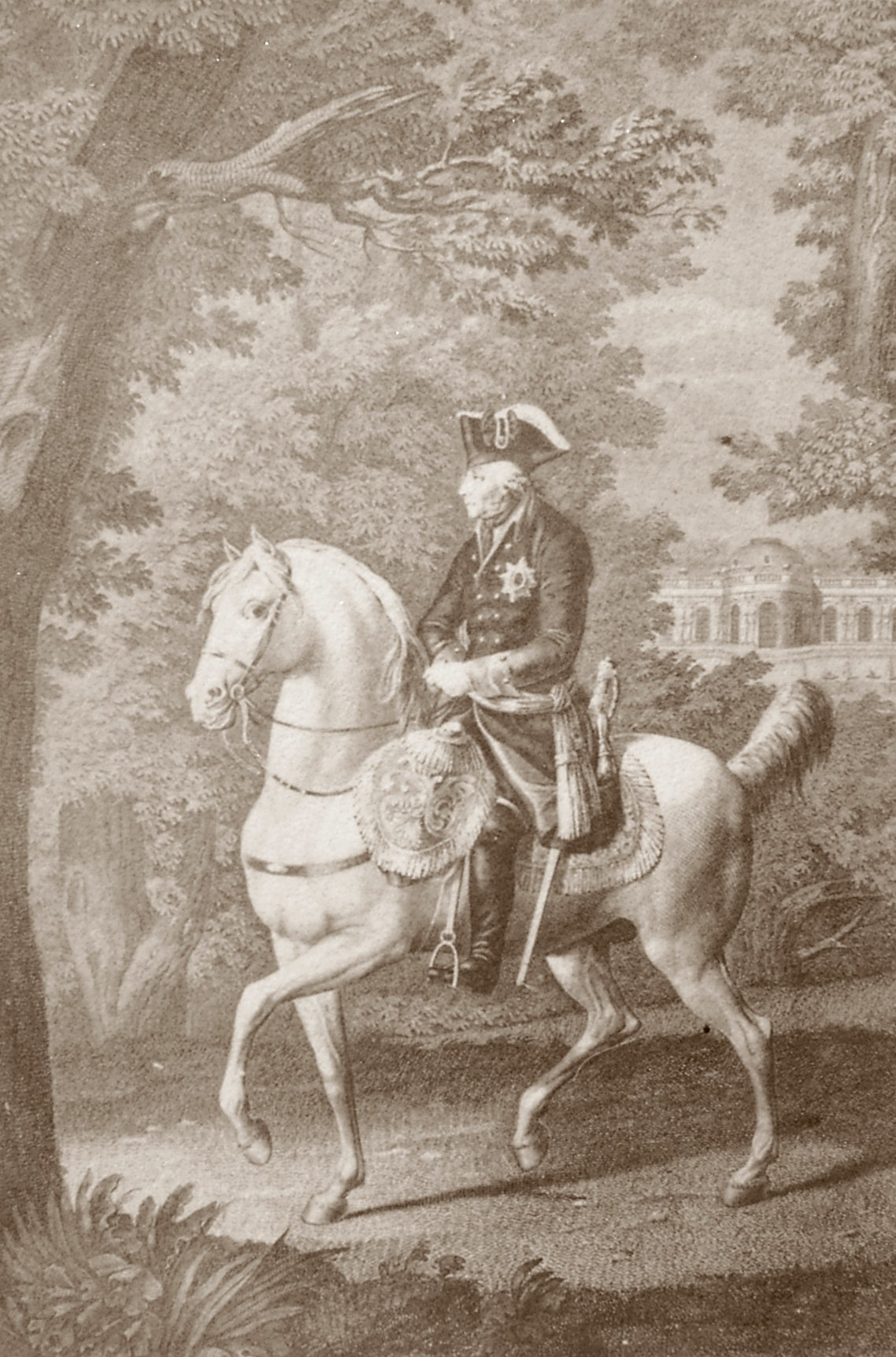 Friedrich II of Prussia.